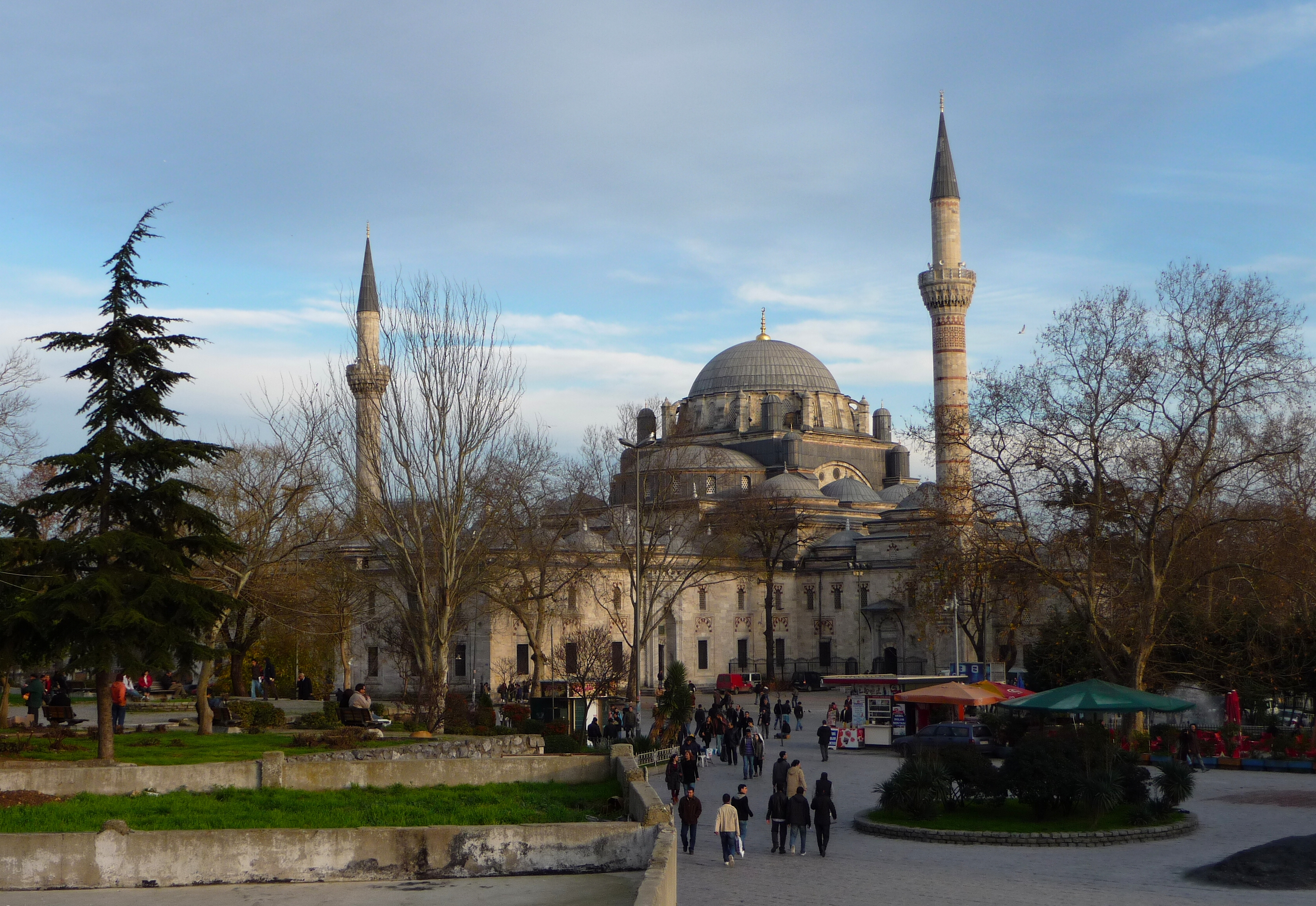 Beyazit mosque (Istanbul, Turkey).